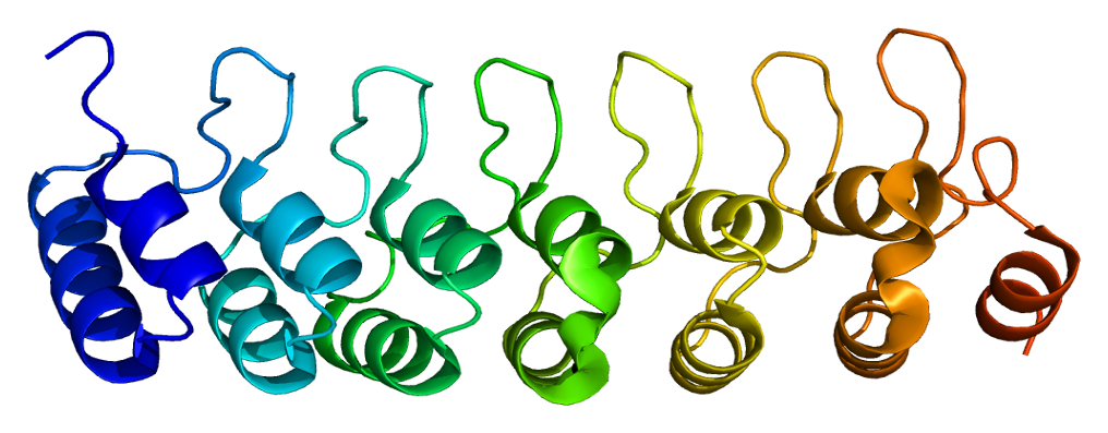 Structure of the BCL3 protein. Based on PyMOL rendering of PDB 1k1a.